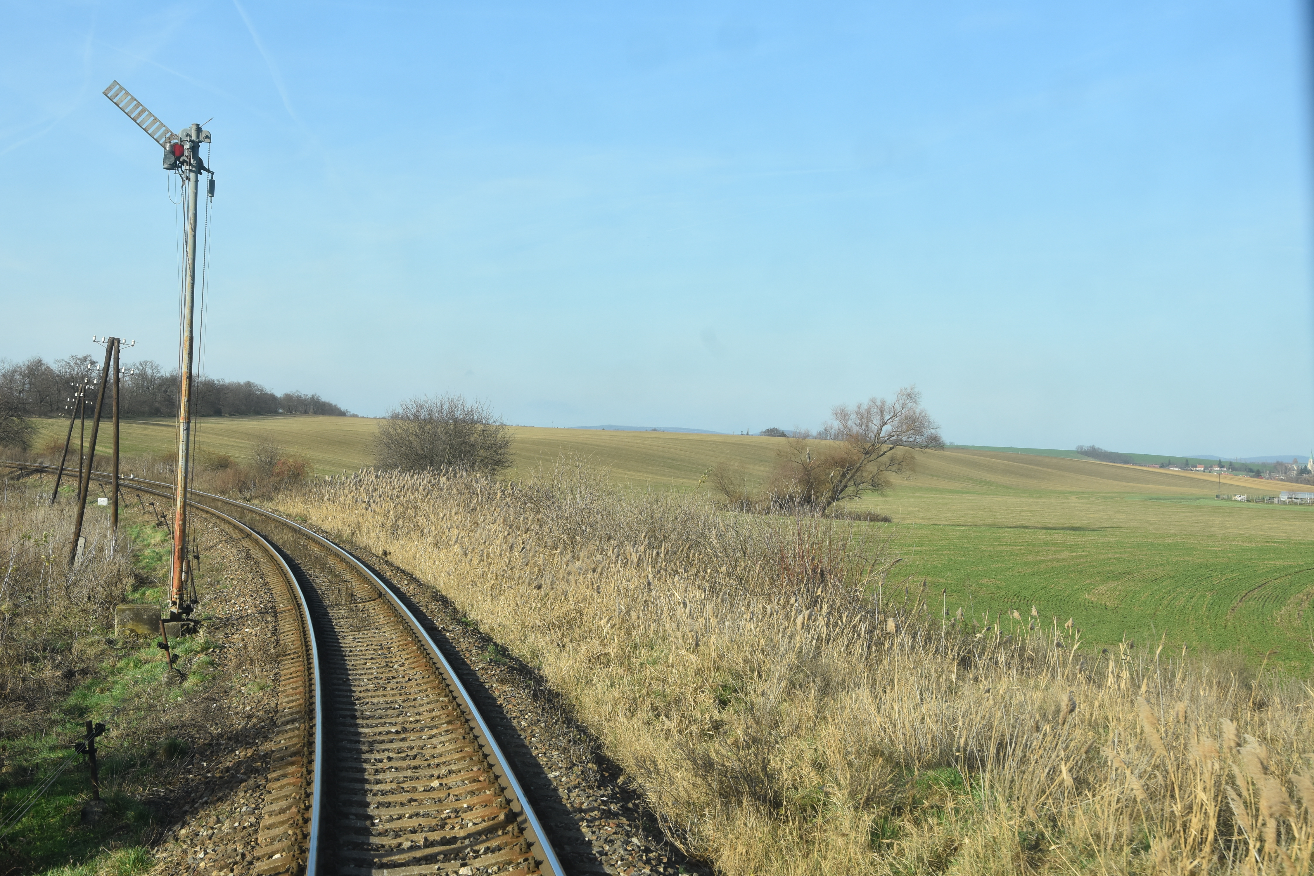 Railway line Leopoldov – Kozárovce (141) near Zbehy, Slovakia.